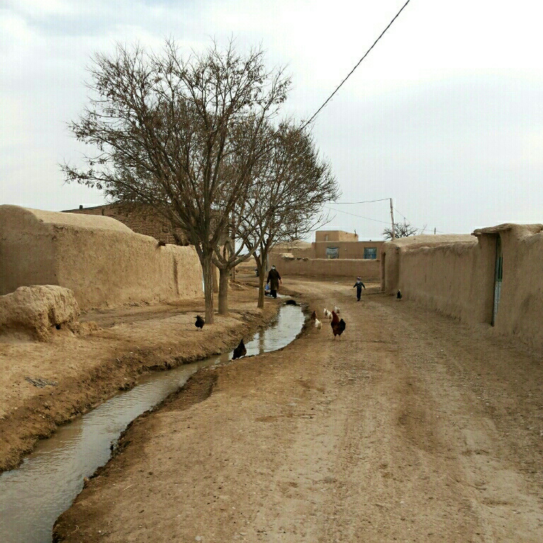 Kamal al molk house - NishapurKamal al molk house - Nishapur